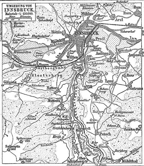 Historical map of Innsbruck